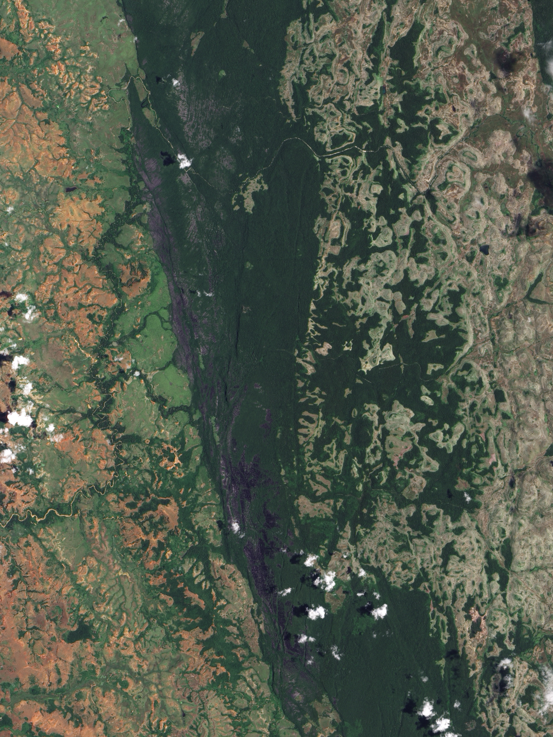 This true-colour image shows a portion of Madagascar’s Tsingy de Bemaraha National Park. Although less dramatic from the sky than from the ground, the rock formations are still visible in this image, especially near the top centre. Together, naked rocks and vegetation produce a patchwork of green and grey. The outcrops appear to form long lines that run roughly north to south, but this is due partly to the angle of sunlight. Just as the clouds cast their shadows to the west, the rocks cast their longest shadows in that direction, too. In reality, breaks along multiple directions dissect the spires of rock, forming a cross-hatch pattern. The formation of these unusual rocks actually began some 200 million years ago when layers of calcite accumulated at the bottom of a Jurassic lagoon, forming a thick limestone bed. Later tectonic activity elevated the limestone, and as sea level fell during the Pleistocene ice ages, even more of the limestone was exposed. No longer underwater, the ancient sediments were carved by monsoon rains, which washed softer rocks away and left tougher rocks standing. Meanwhile, groundwater carved caves below the surface. As cave ceilings gave way, canyons formed between rocky towers. Today, the limestone formation shows a combination of jagged spires and rounded surfaces.